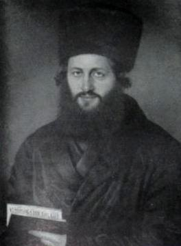 Rabbi Samuel Benjamin Sofer, (1815-1871), son of the Chasam Sofer.